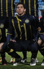 Micha Dor